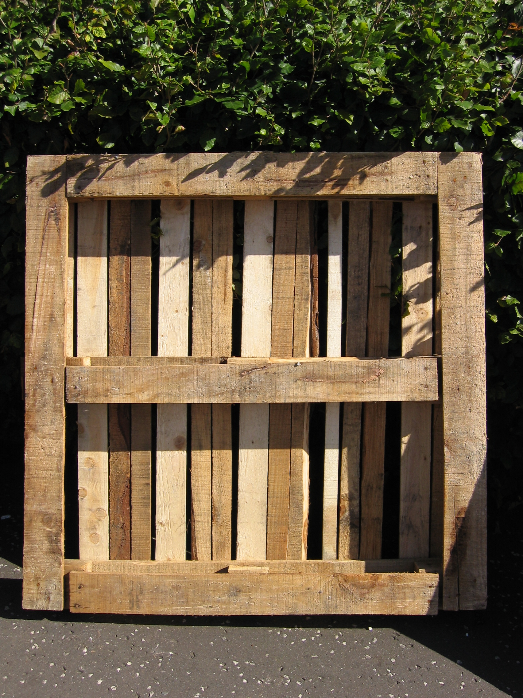 Random wooden pallet leaning against someone's hedge.